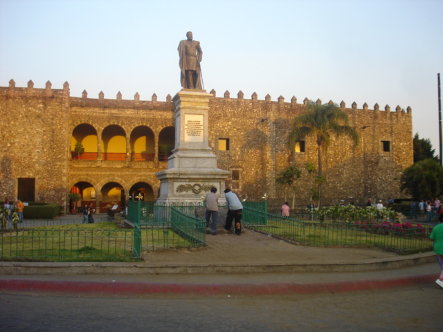 front side's corte's palace